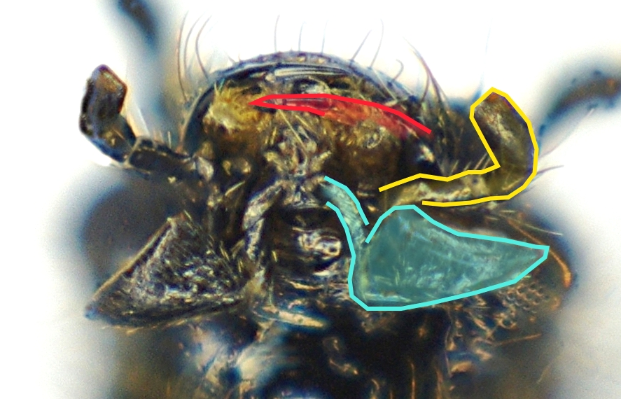 Mouthparts of Tillus elongatus from below, right side partly coloured